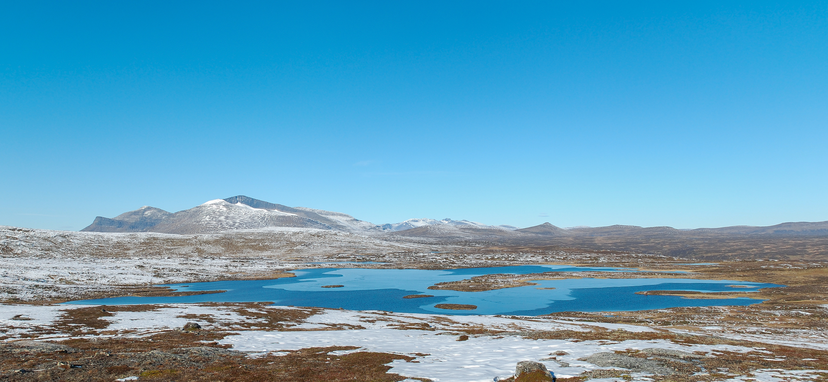 Stortjärnen, a small lake in Ljungdalen.